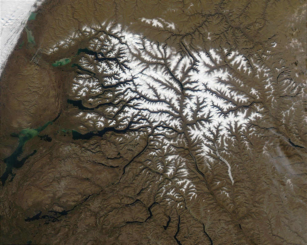 SNOW ON THE PUTORANA PLATEAU September 25, 2003